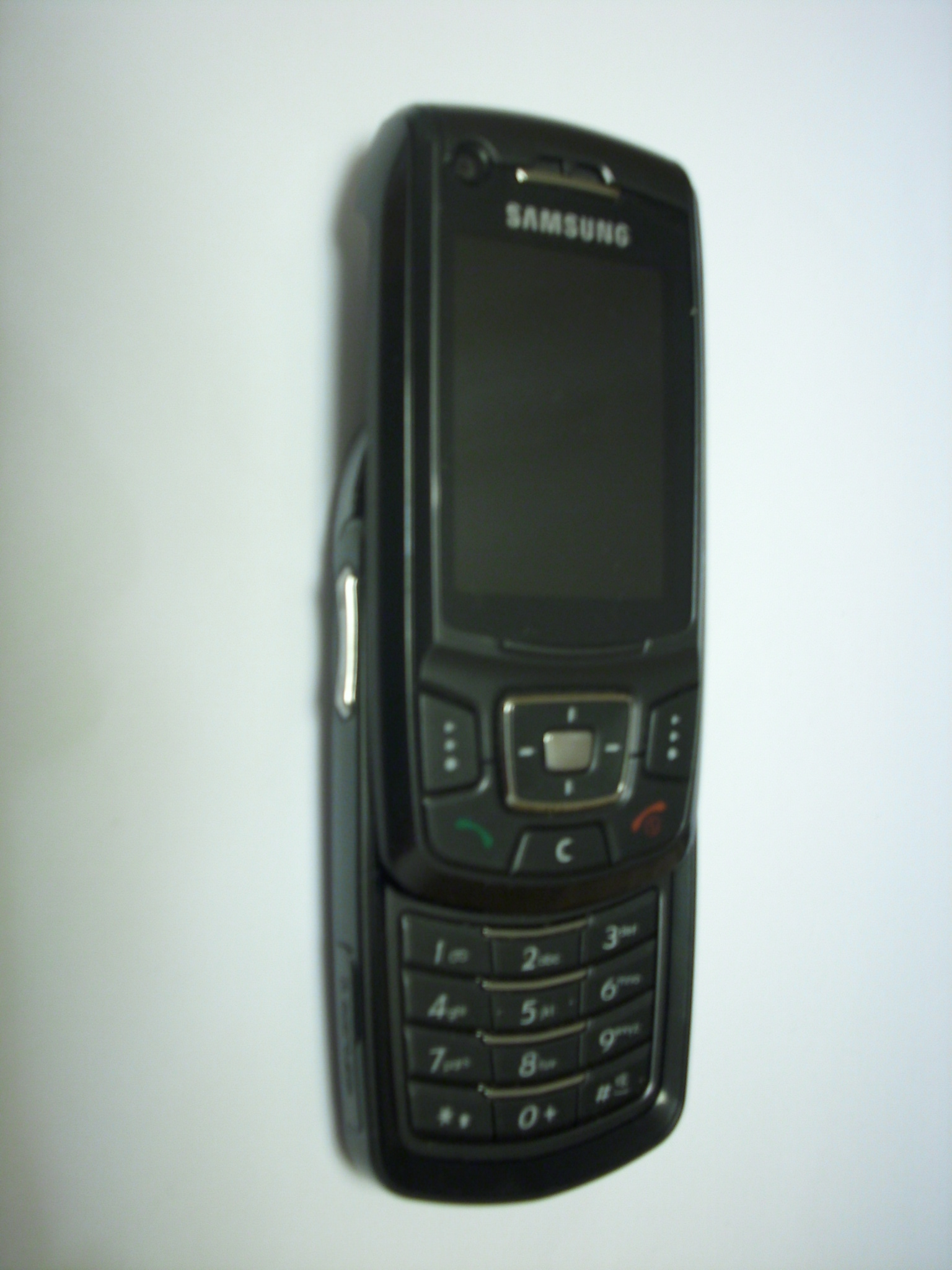 Samsung SGH-Z400 mobil phone